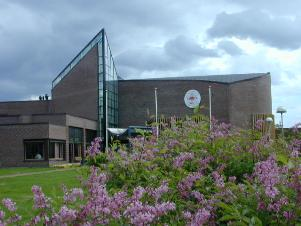 Picture of Finnmark College/Høgskolen i Finnmark.